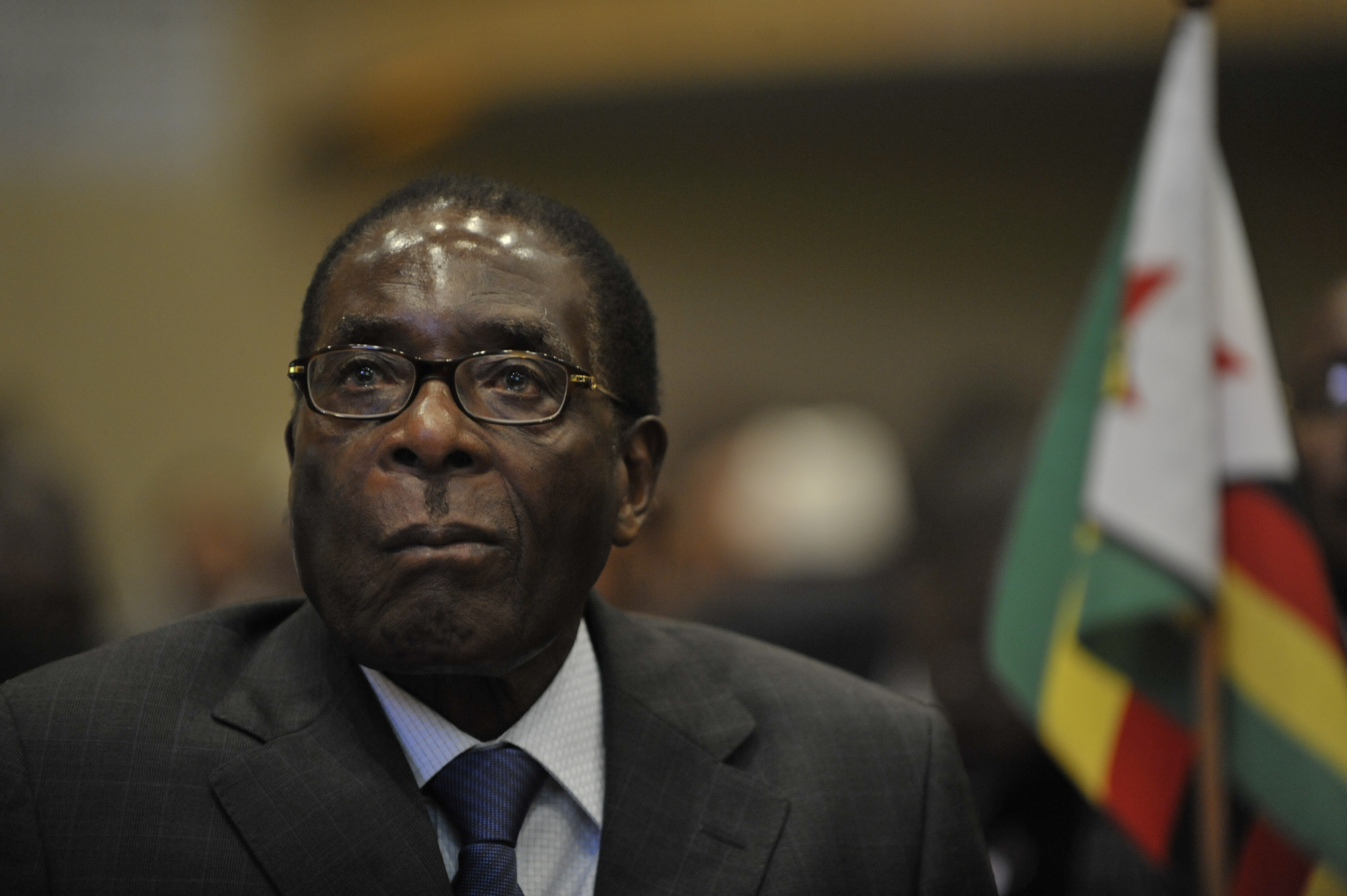 Robert Mugabe, president of Zimbabwe, attends the 12th African Union Summit Feb. 2, 2009 in Addis Ababa, Ethiopia.